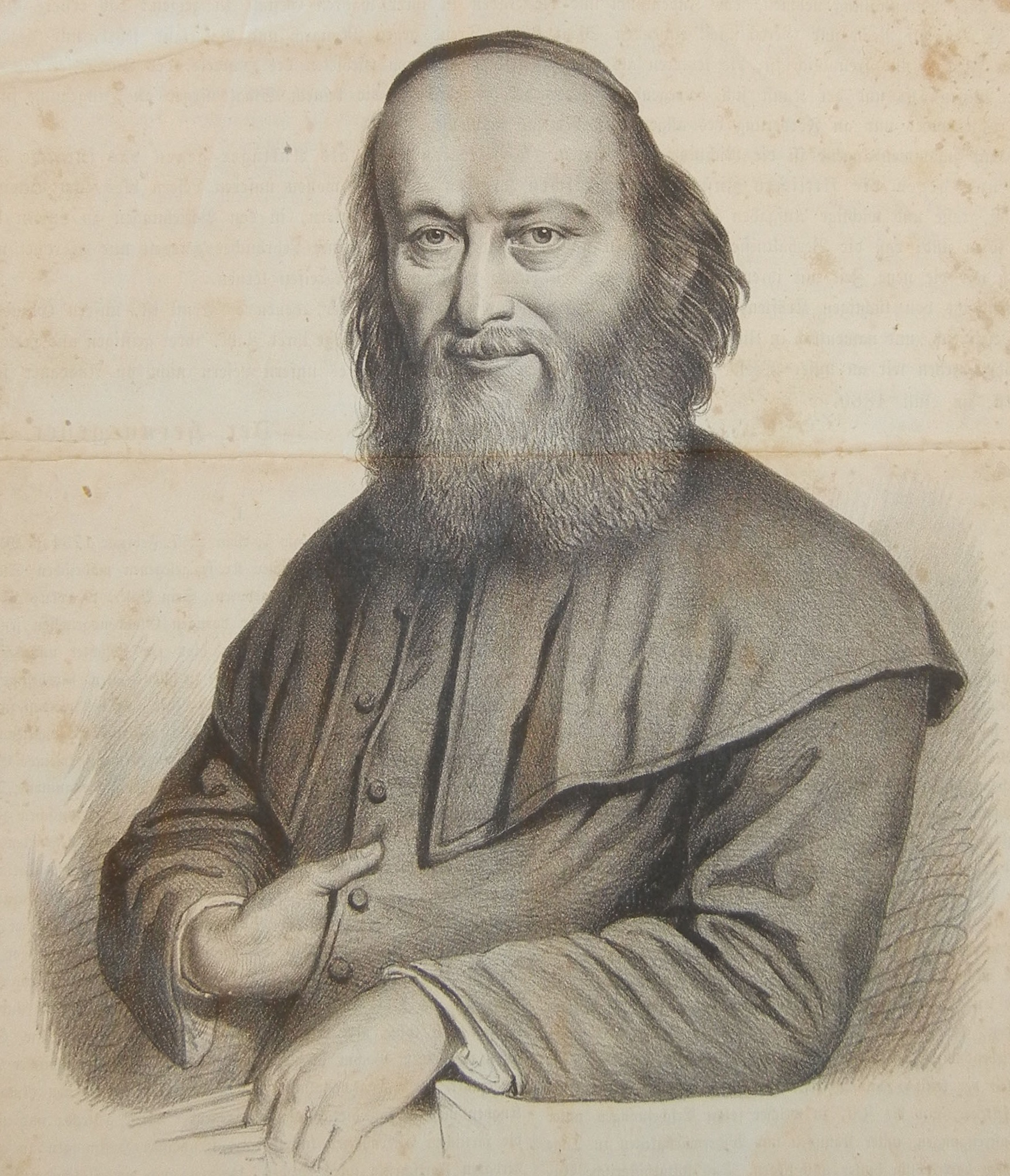 Rabbi Löw Schwab of Pesth.